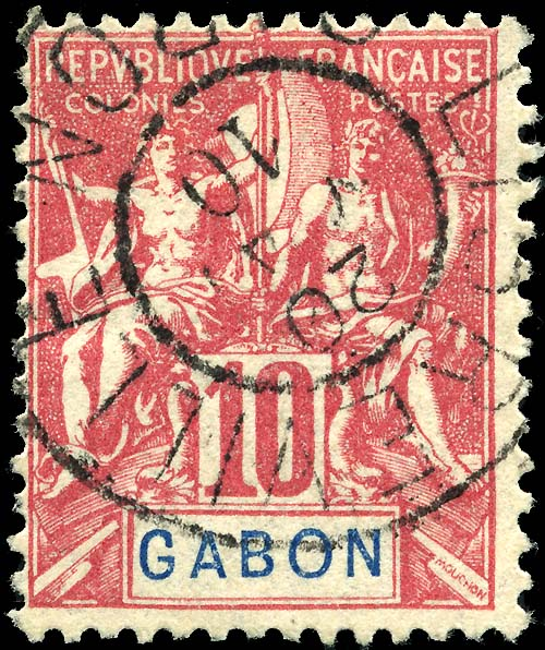 Gabon 10-centime stamp of 1904